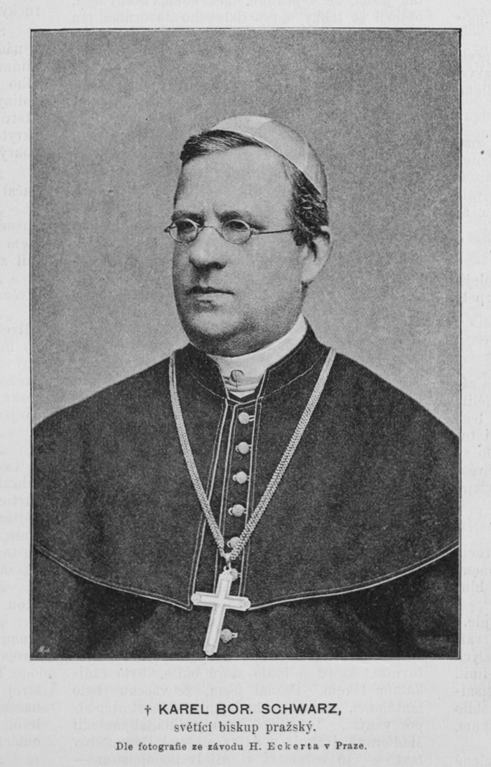 Portrait of Karel Bor. Schwarz (1828-1891), auxiliary bishop of Prague.